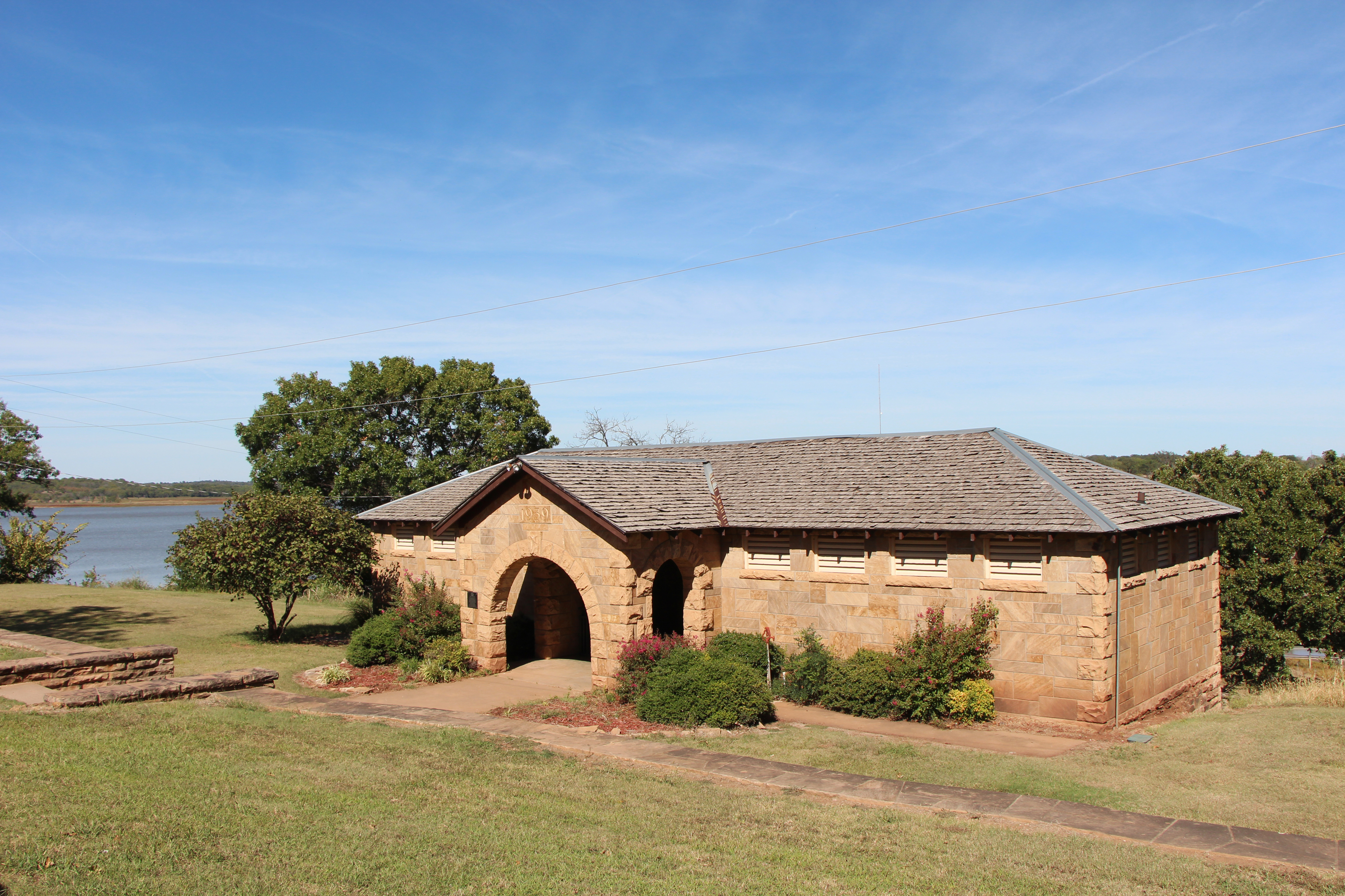 Pawnee Bathhouse, west facing